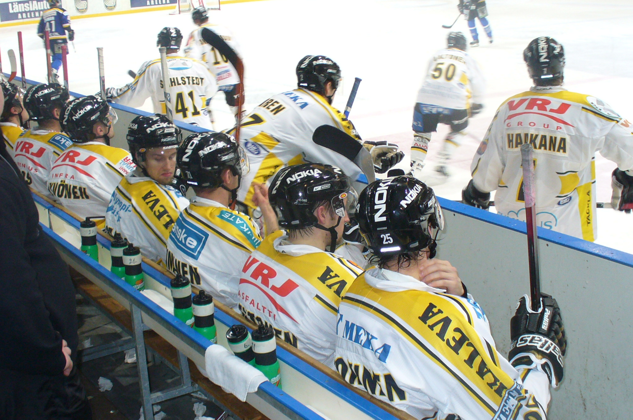 Finnish ice hockey team Kärpät Oulu.